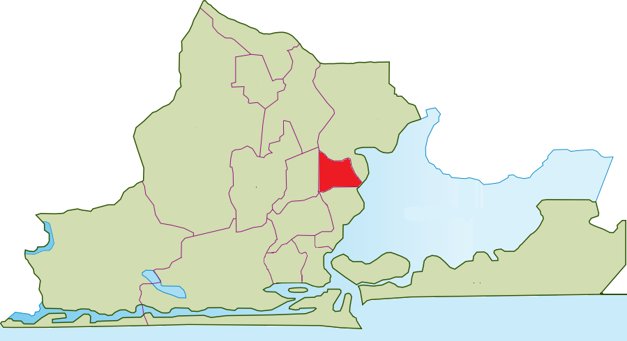 Location of Shomolu within Lagos Metropolitan Area